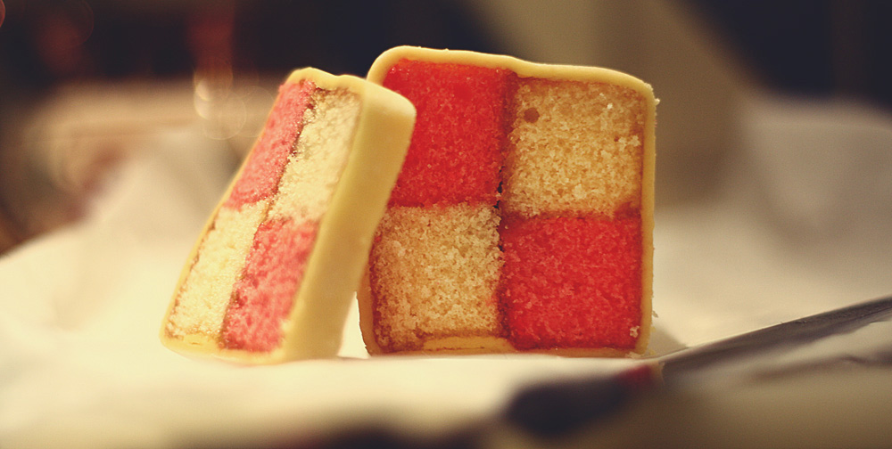 A home made Battenberg Cake, end view, with a slice leaning on it.